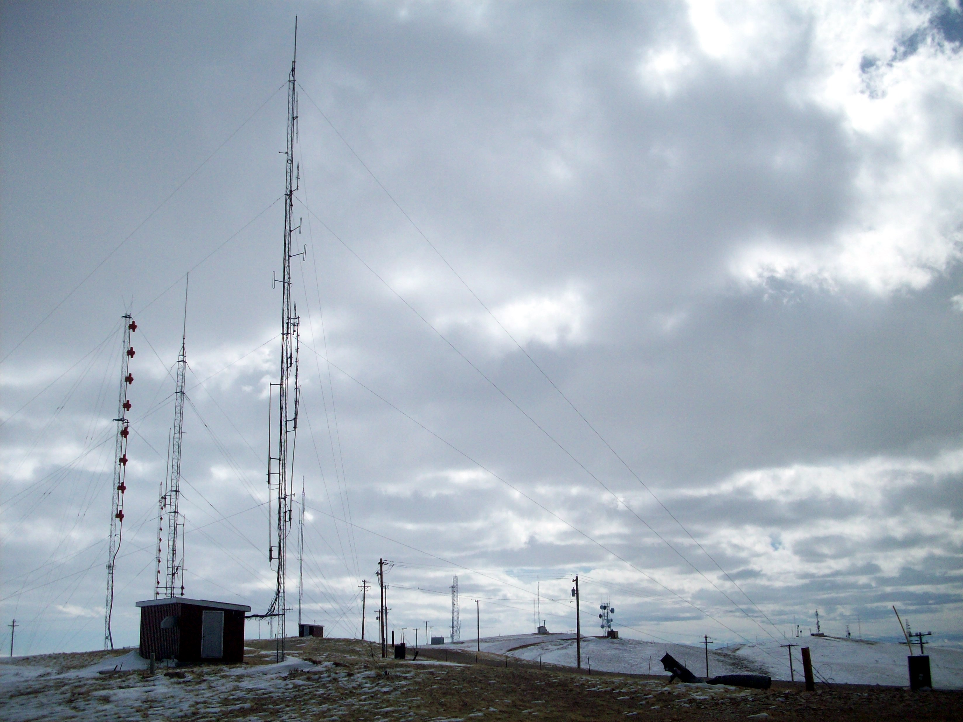 The eastern side of Aspen Mountain (Wyoming) features the radio stations KSIT (99.7 FM Rock Springs) and KQSW (96.5 FM Rock Springs) as well as emergency radio transmitters etc. South of Rock Springs looking west.